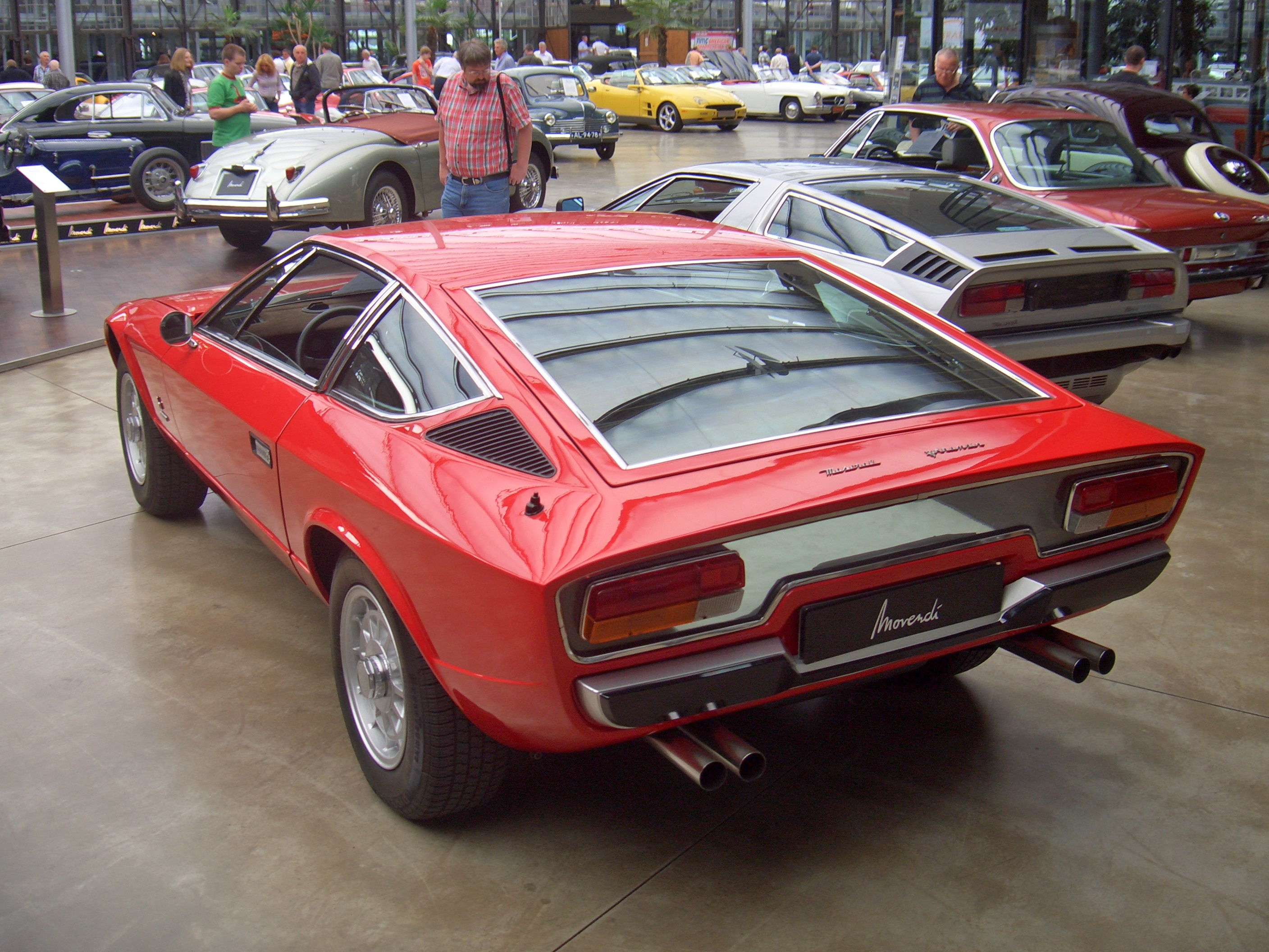 Maserati Khamsin, 1975, seen at CLASSIC REMISE, Düsseldorf, Germany